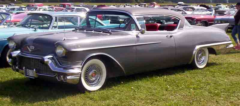 1957 Cadillac Series 57-6237DX Coupe de Ville. (This appears to be an Eldorado.)